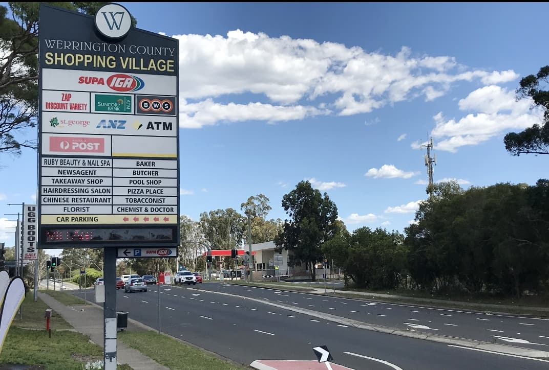 Werrington County Shopping Village